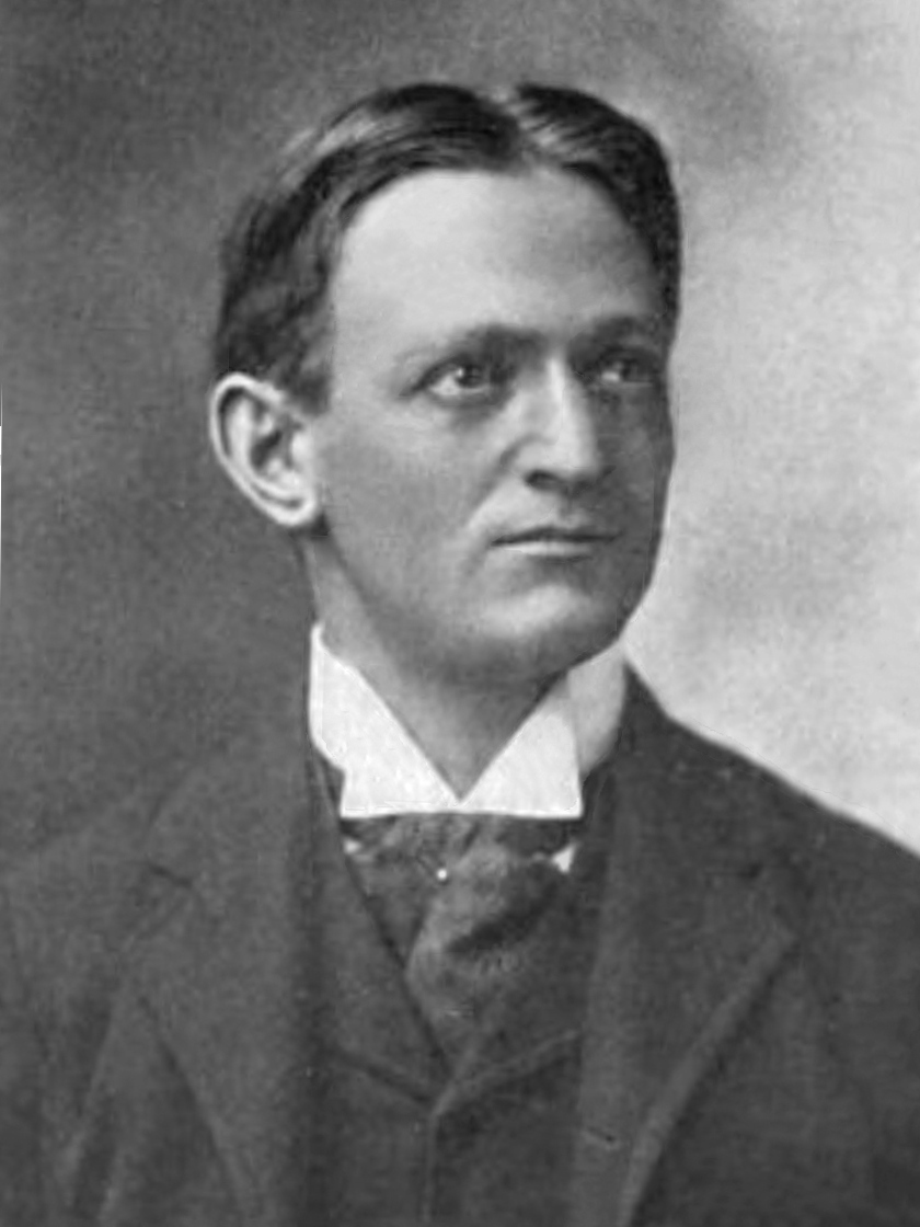 Montague Lessler (1869-01-01 - 1938-02-17), U.S. Representative from New York (1902-1903).